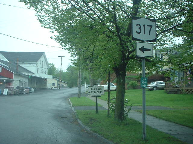 NY 317 shield in Jordan. Old N.Y. State Highway cast iron sign in the background.